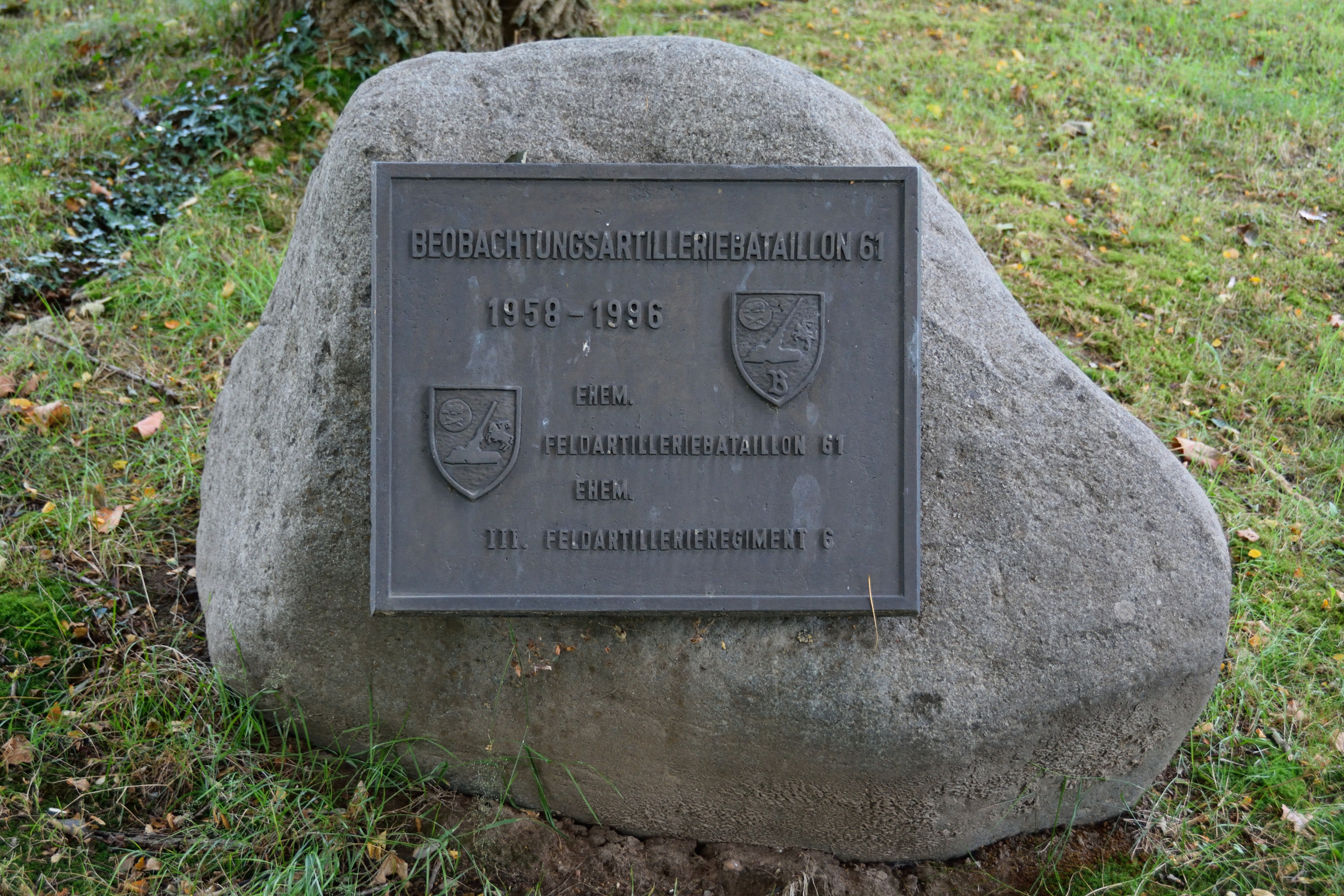 The memorial stone for the observation Artillery Battalion 61 in the "Ehrenhain of Schleswig-Holstein artillery" in Kellinghusen.